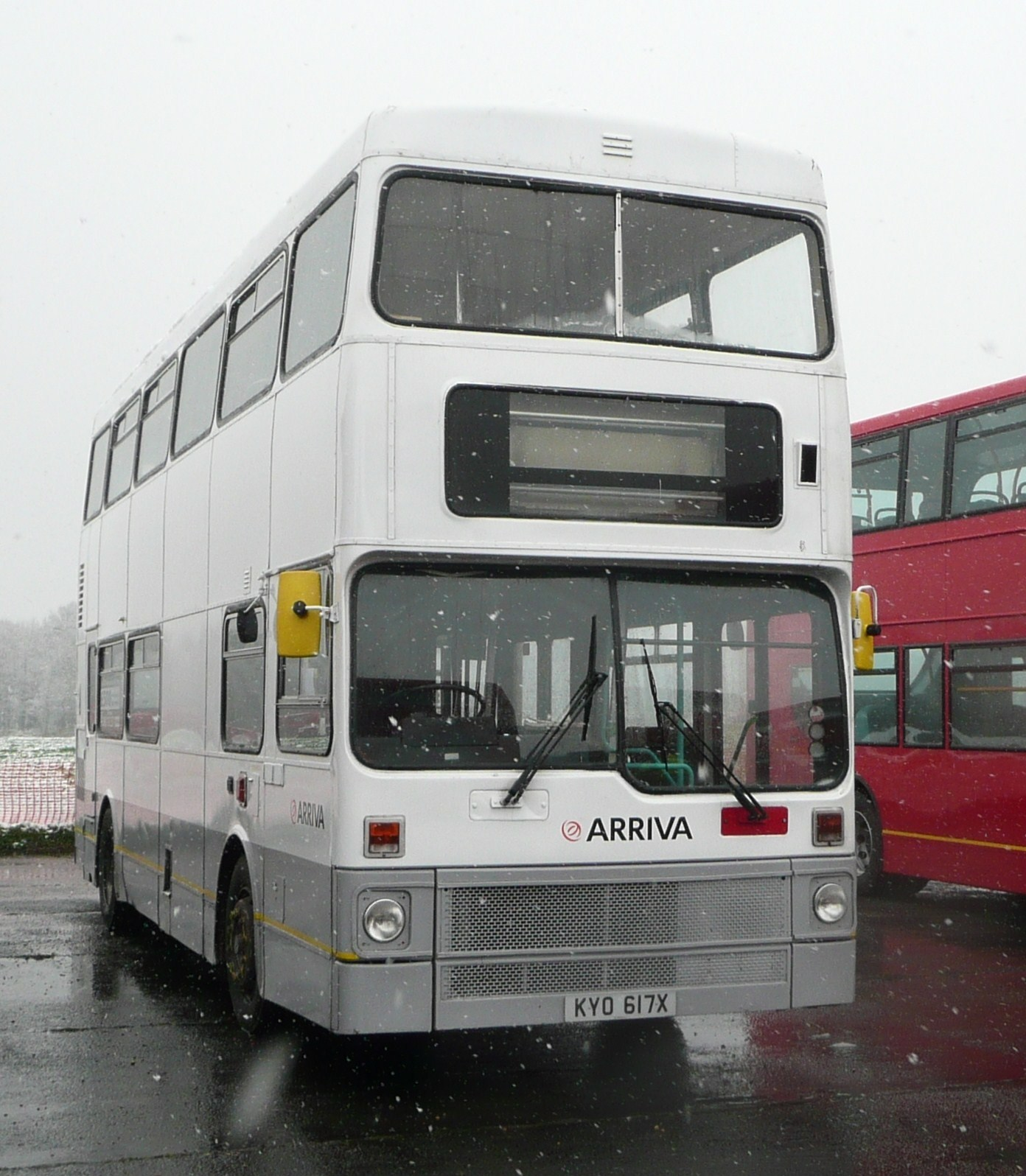 An Arriva London MCW Metrobus driver trainer.